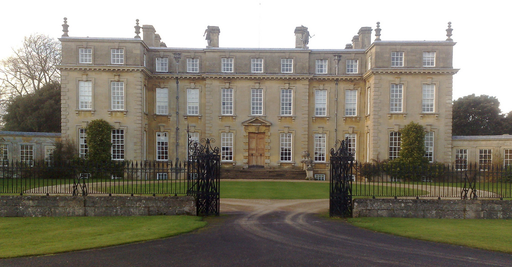 Front view of Ditchley House. The house was used as a film location for the Father Brown tv episode "The Man in the Shadows".